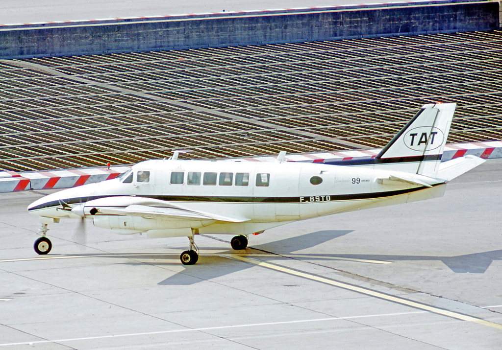 Beech 99 F-BSTO of Touraine Air Transport at Paris Orly in 1971